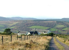 Driveway to Moniack Mhor Writing Centre Marked as Teavarran on the OS Map